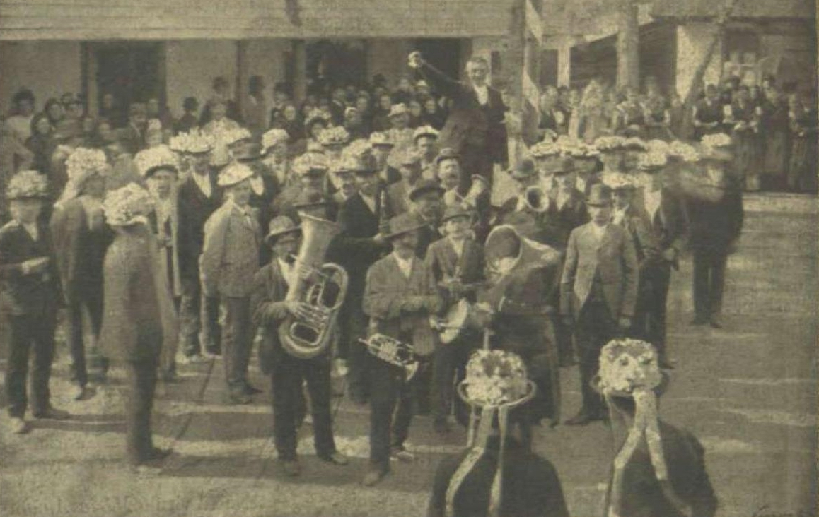 Merry village festival presented by the ethnic german citisens of Torontál County; Millennial exhimbition in Budapest